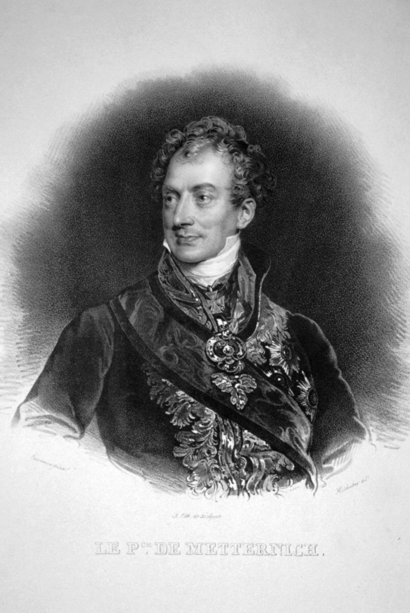 Lothar Clemens Metternich, Lithography by Joseph Kriehuber after Laurence, s.a.